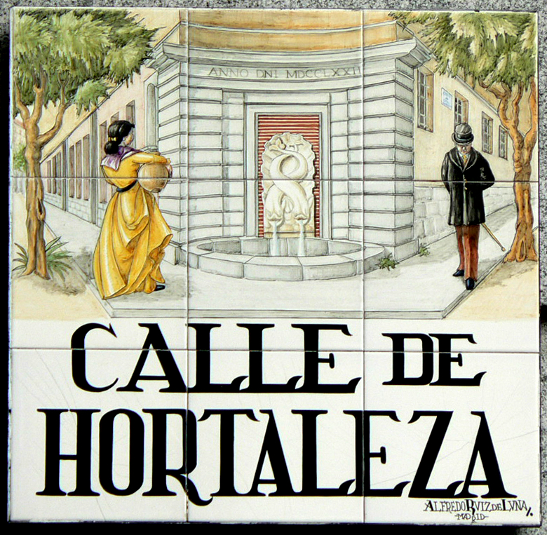 Sign of Calle de Hortaleza (street, Centro district) in Madrid (Spain).